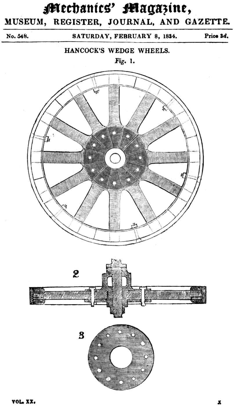 Hancock's wedge wheel (artillery wheel) diagram on the cover of Mechanics' Magazine (1834)